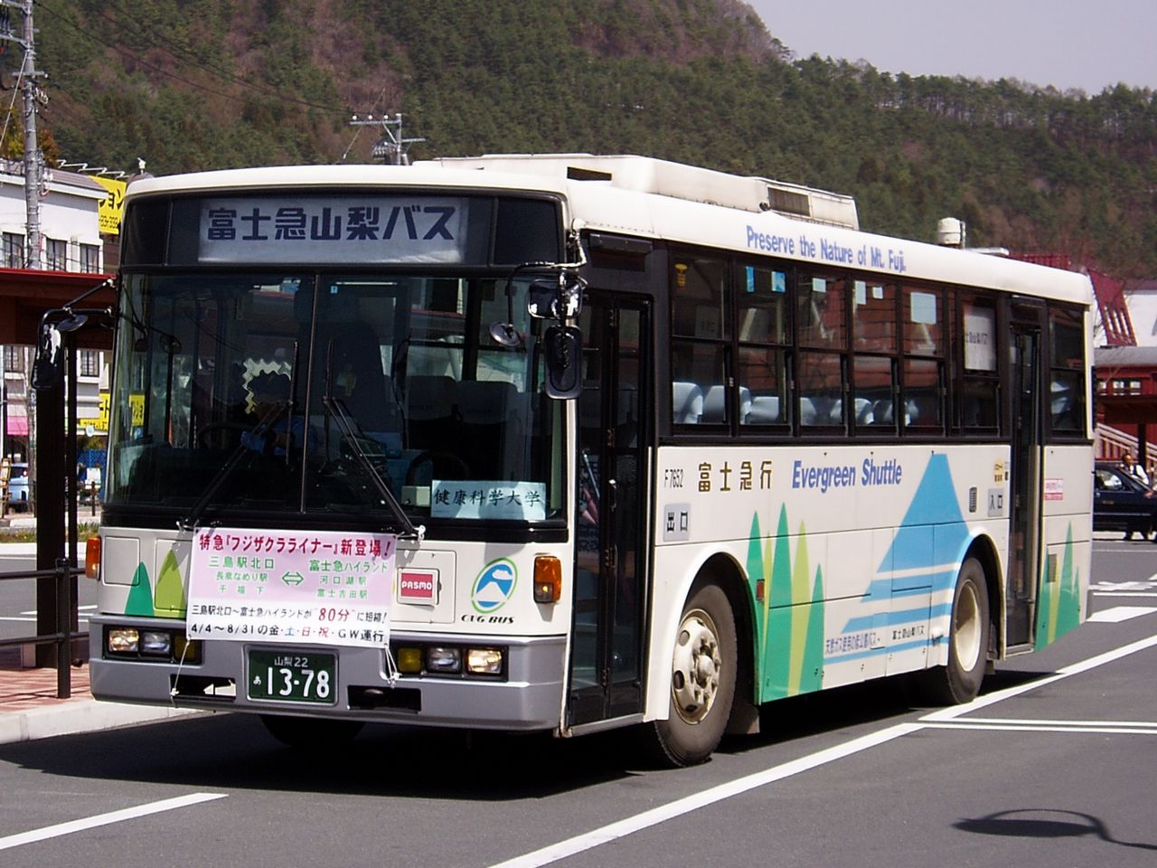 Nissan Diesel NE-UA4E0HSN for Fujikyu Yamanashi Bus F7652 "Evergreen Shuttle"